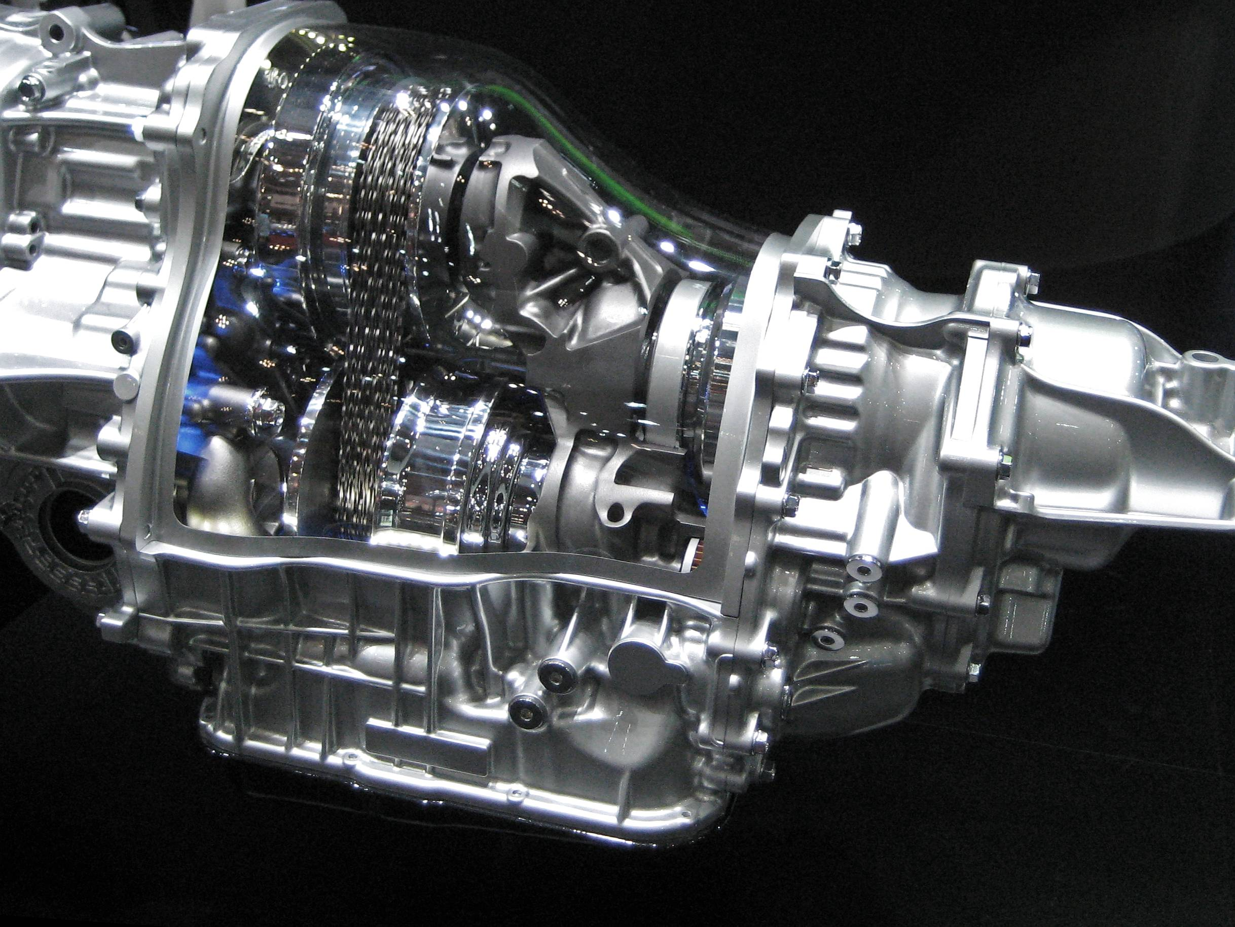 Subaru Lineartronic transmission in Tokyo Motor Show 2009.